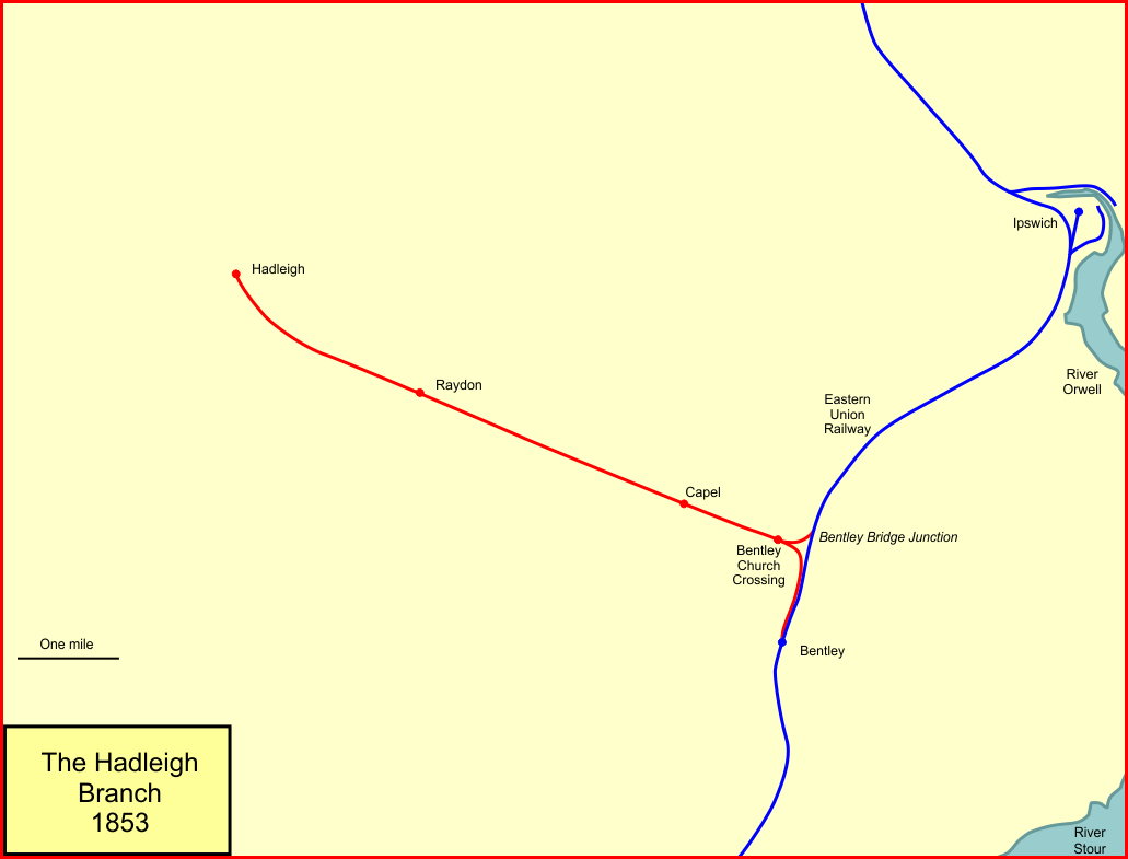 System map of the Hadleigh branch railway, England, in 1853